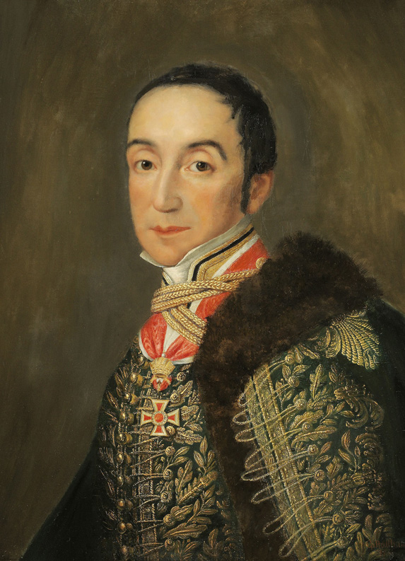 Nemes Ádám, first governor of the Austrian National Bank (Oesterreichische Nationalbank (OeNB)).